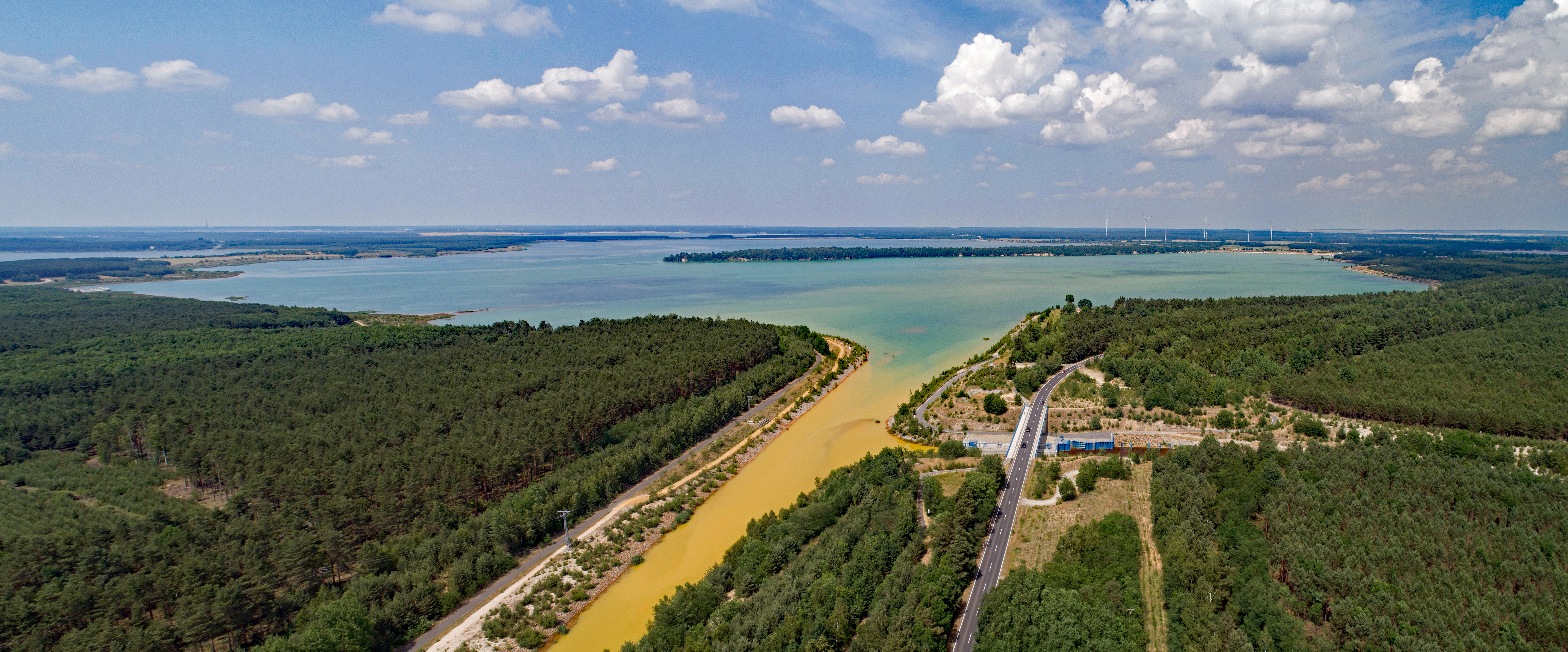 Partwitzer See (Elsterheide, Saxony, Germany) Hornjoserbsce: Powětrowy wobraz Parcowskeho jězora z juha